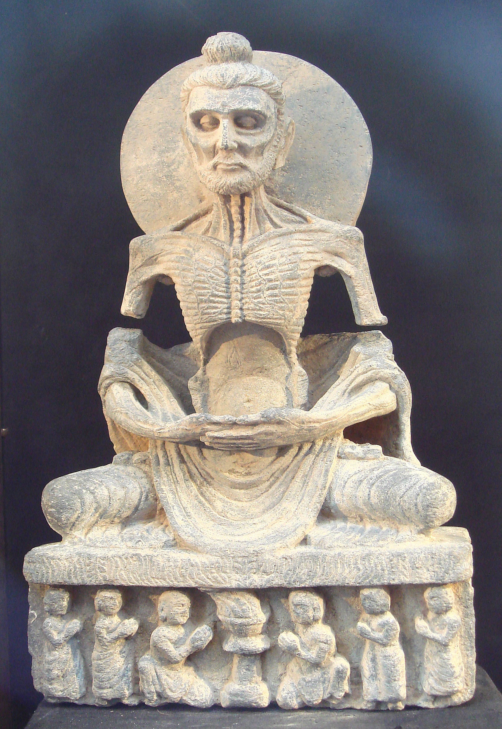 Fasting Buddha